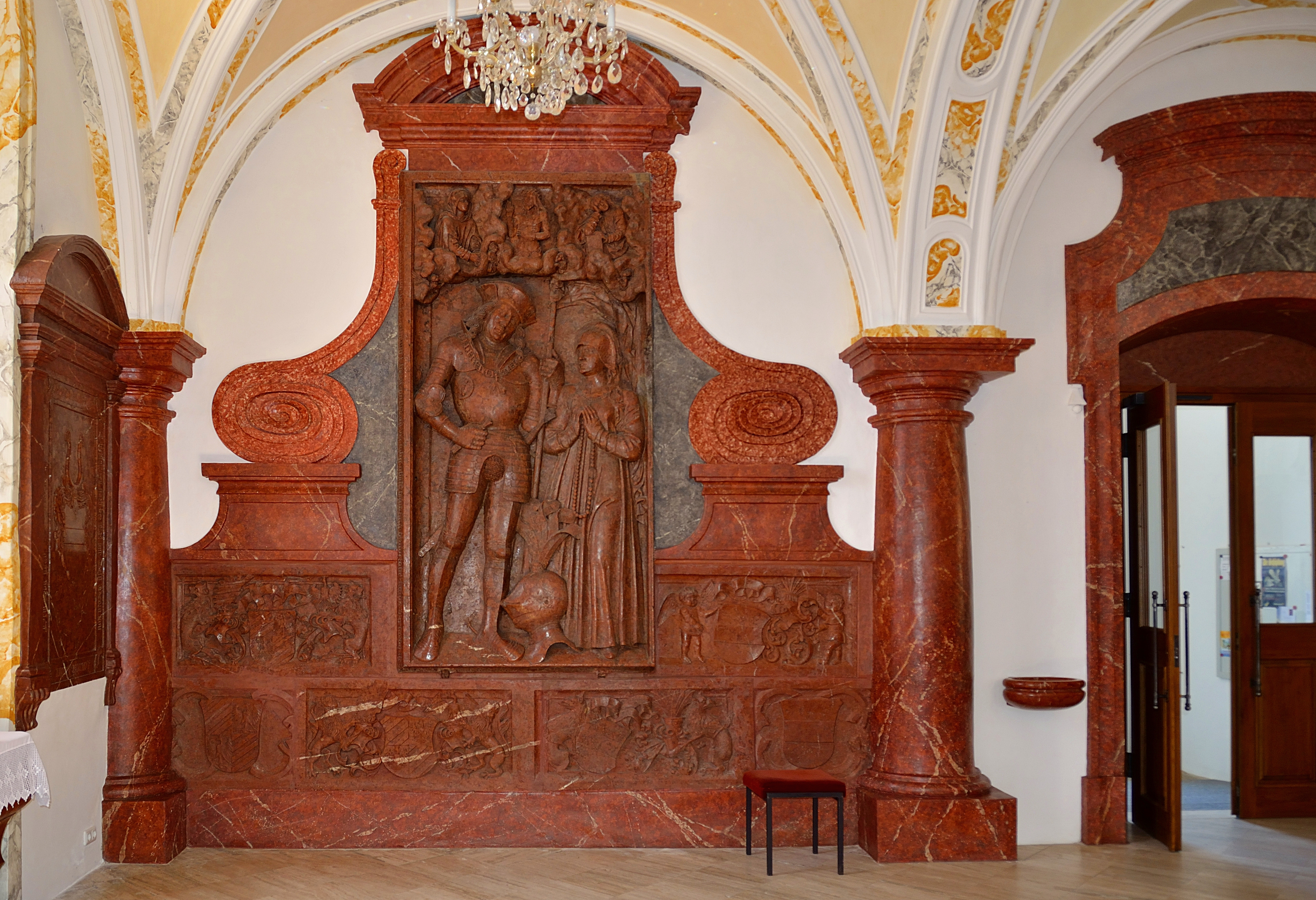 Epitaph at the south side of subsidiary church St. Anne in Oberthalheim, municipality of Timelkam, Upper Austria. Dedicated to Wolfgang von Pohlheim († 1512) and his wife Johanna von Borsela († 1509).